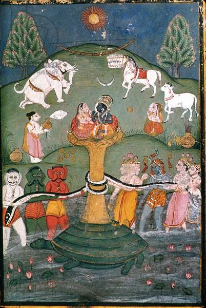 PLS141171 The Second Incarnation of Vishnu as Kurma 'The Tortoise': The Churning of the Ocean (paint on paper) by Indian School; Chandigarh Museum, Chandigarh, Punjab, India; ( .: all the things lost in the deluge were recovered; Lakshmi was born from the churning ocean;); Ann & Bury Peerless Picture Library; Indian, out of copyright.